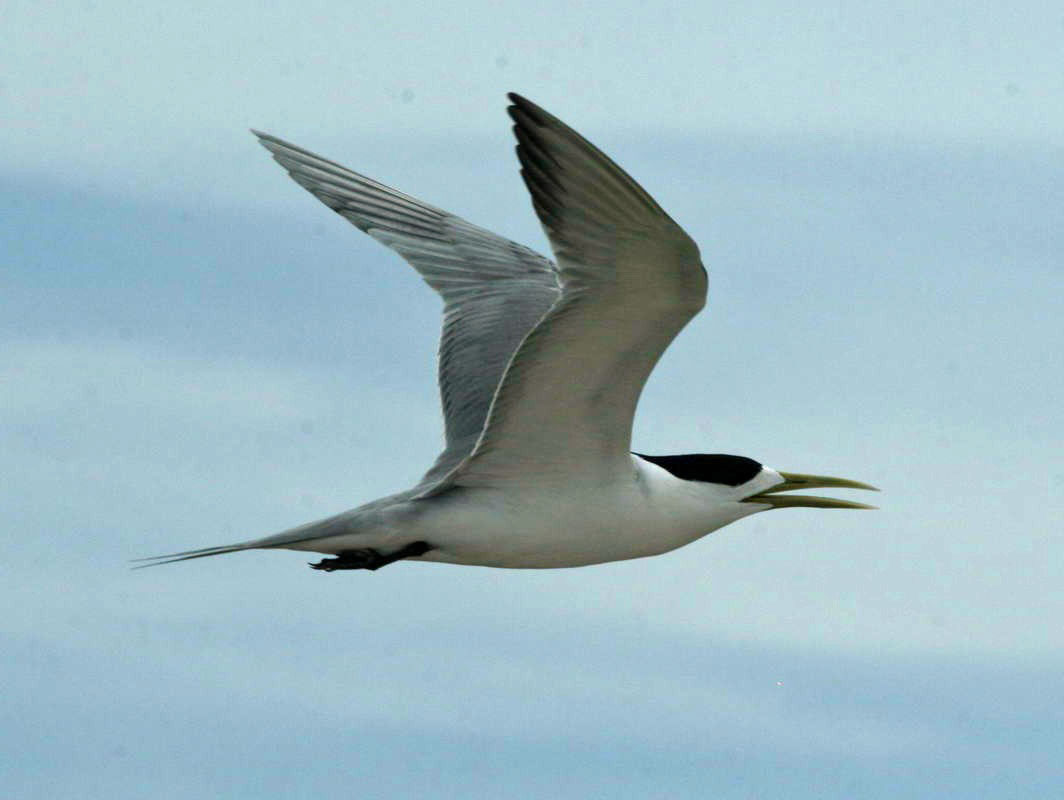 Greater Crested Tern (Thalasseus bergii) - Michaelmas Cay, the Great Barrier Reef, Australia